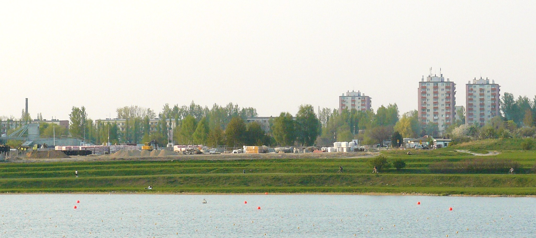 Malta Lake Poznan.